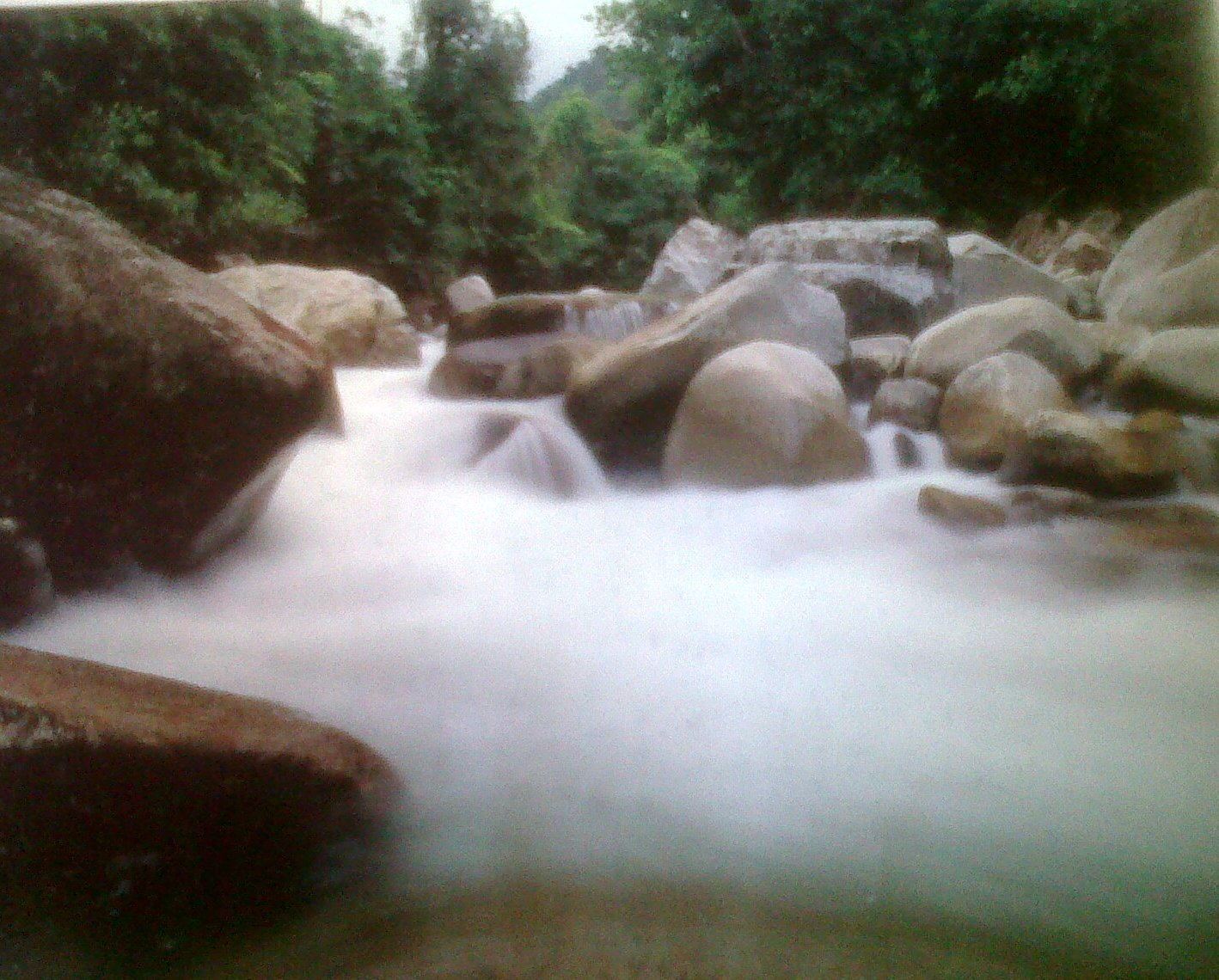 Afluentes del río largo río amazónico de que discurre por Colombia y Brasil y que drena una gran cuenca.